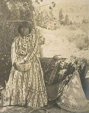 A photograph of Mono Paiute basketmaker Nellie Charlie, who was an artist who wove 'museum quality' Californian baskets in Yosemite.